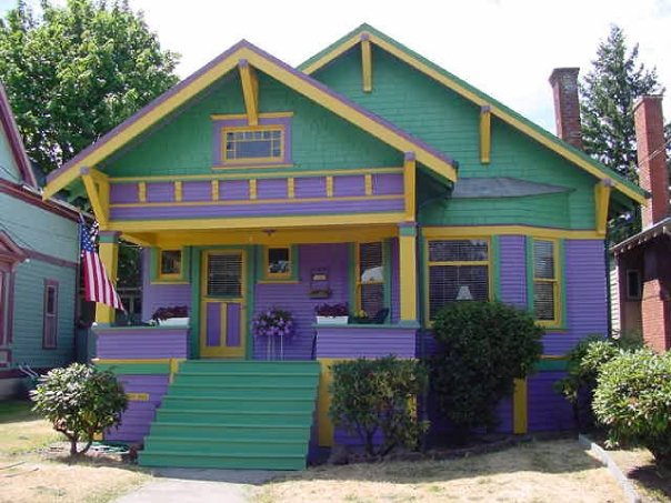 Historic Elmer J. Dannal Home 1913